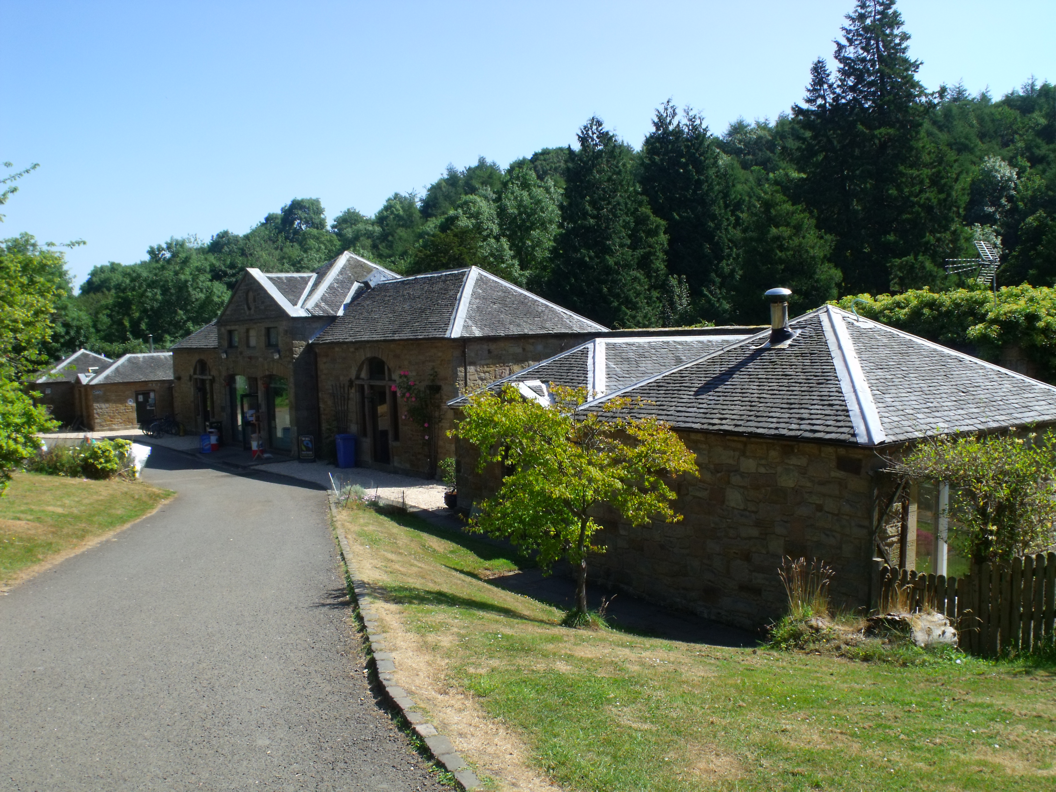 The visitor centre of the country park.